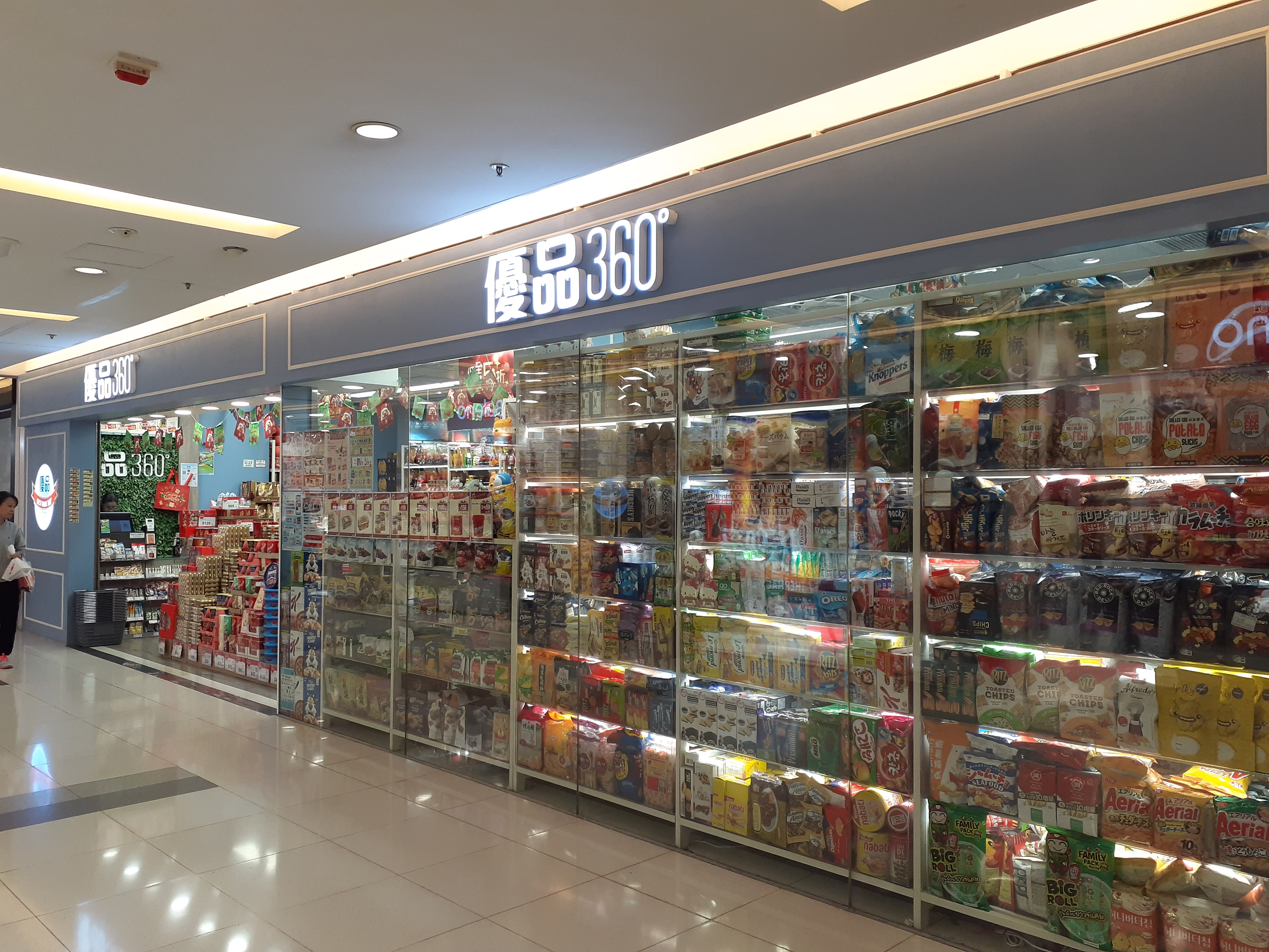 HK SSP 長沙灣 Cheung Sha Wan 深盛路 Sham Shing Road 昇悅商場 Liberté Mall shop in December 2019